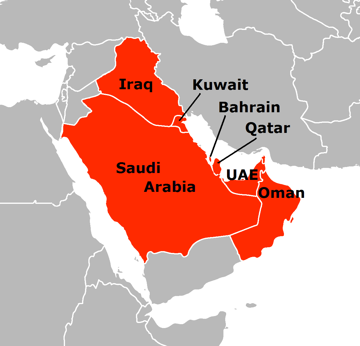 Map of the Arab countries bordering the Persian Gulf intended for use on the Arab states of the Persian Gulf article.